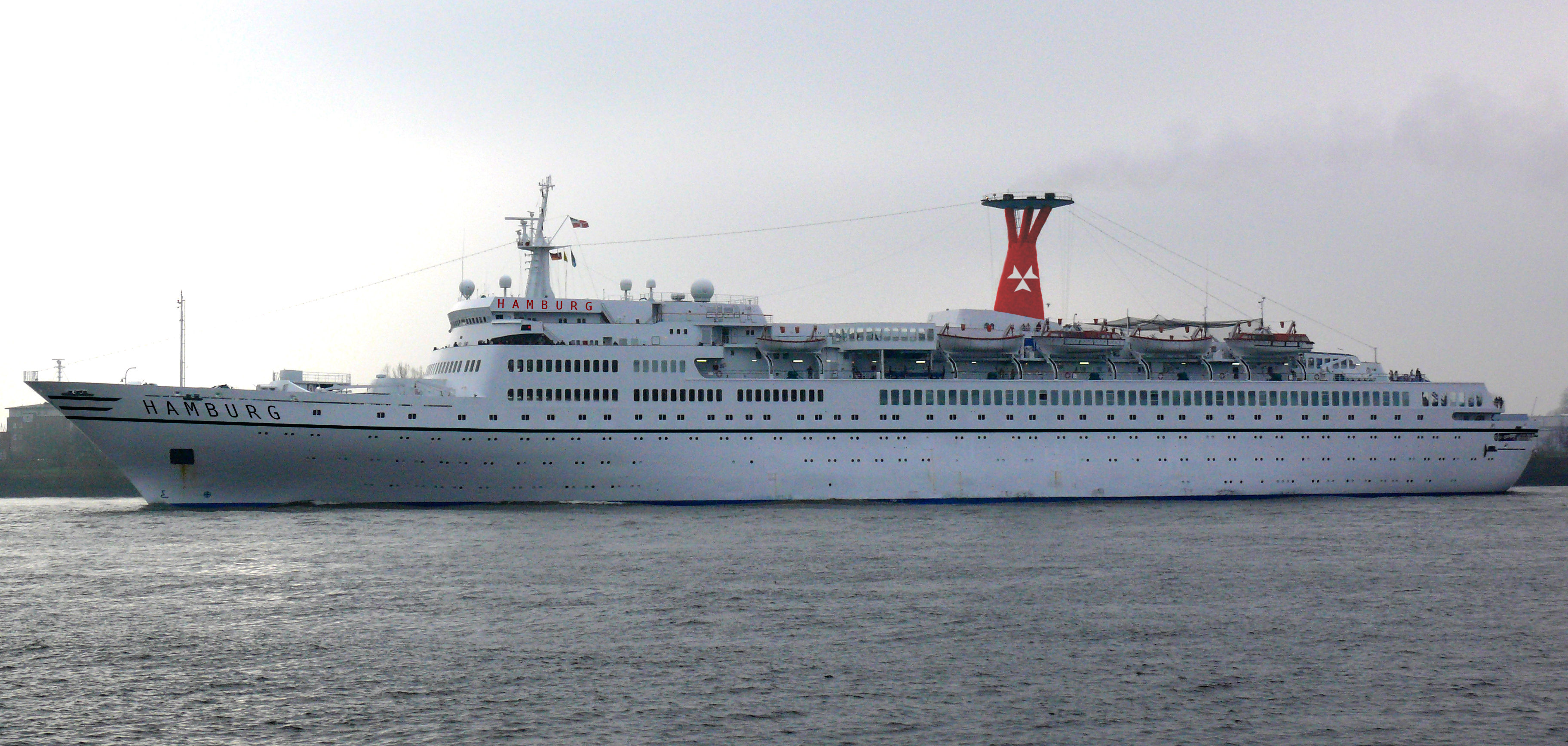 A photographic manipulation of SS Maxim Gorkiy, making her appear like she did as SS Hamburg during service with German Atlantic Line.